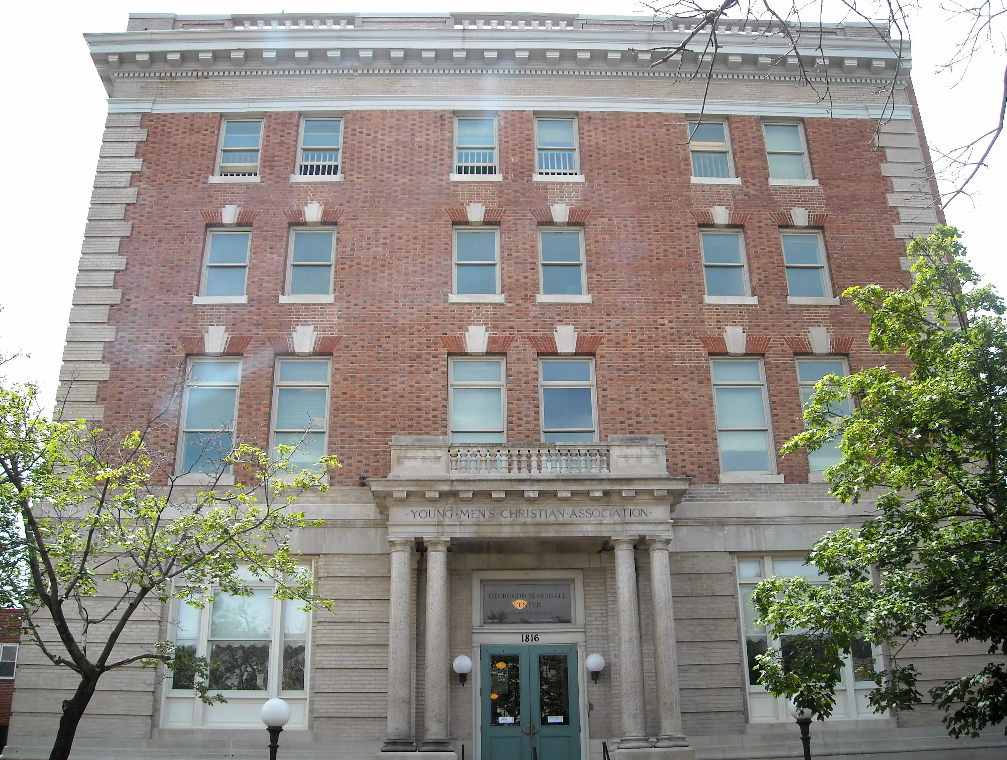 12th Street YMCA Building at 1816 12th Street, NW in Washington, D.C. The building is a National Historic Landmark.